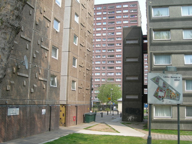 South Kilburn Estate This picture was taken on Malvern Road. "Welcome to Dickens House", says the sign on the left. Austen House is through the walkway, Blake Court is to the right of the walkway. These flats, and many nearby, will be demolished soon for a much needed but controversial regeneration project. There was recently a police raid on this estate which recovered several guns and a significant quantity of crack cocaine, cash and other items. Links of interest are below..